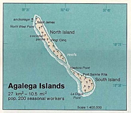 Map of Agalega Islands in the Indian Ocean